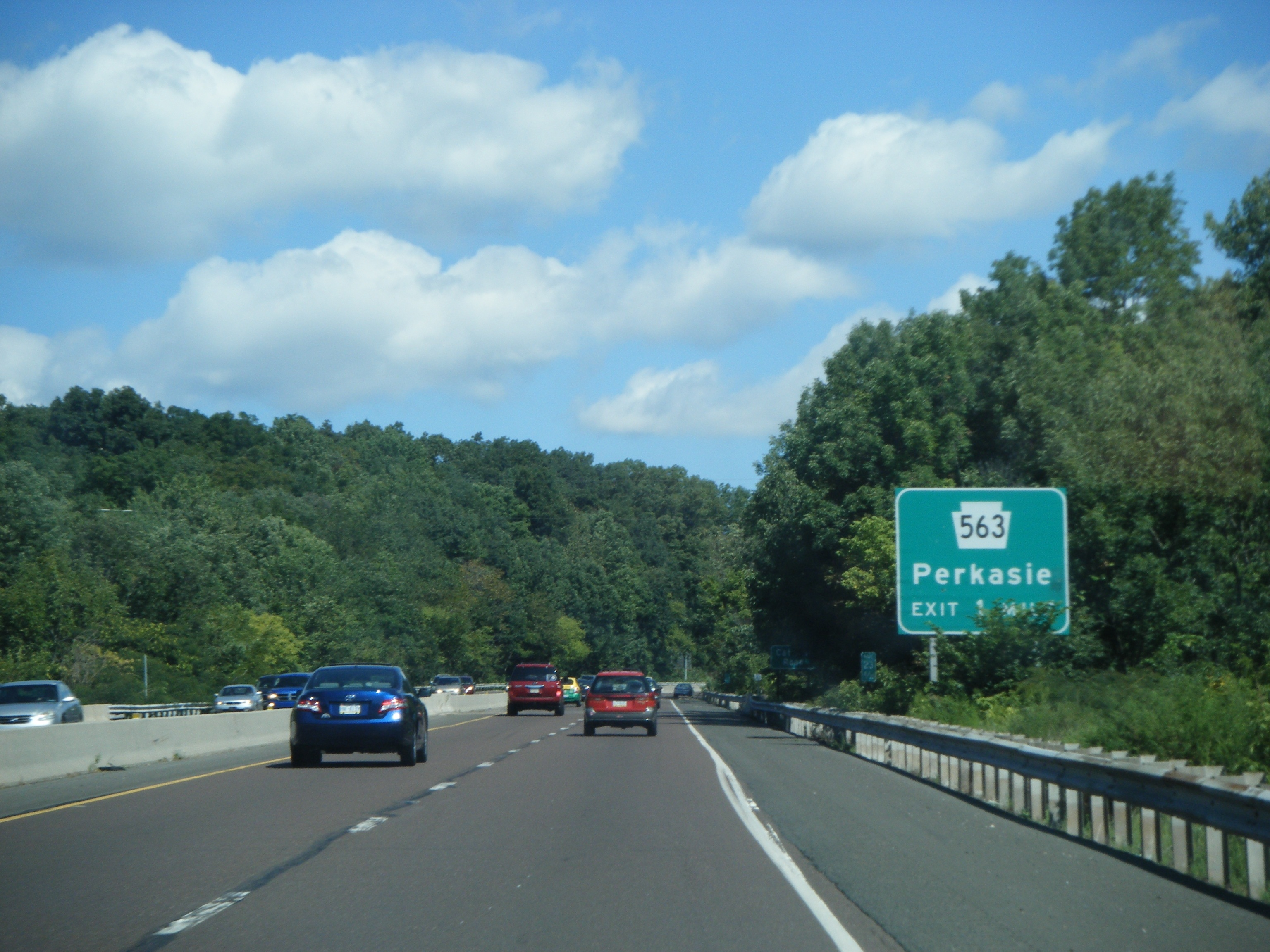 Northbound Pennsylvania Route 309 1 mile to the exit for Pennsylvania Route 563 in West Rockhill Township, Pennsylvania.